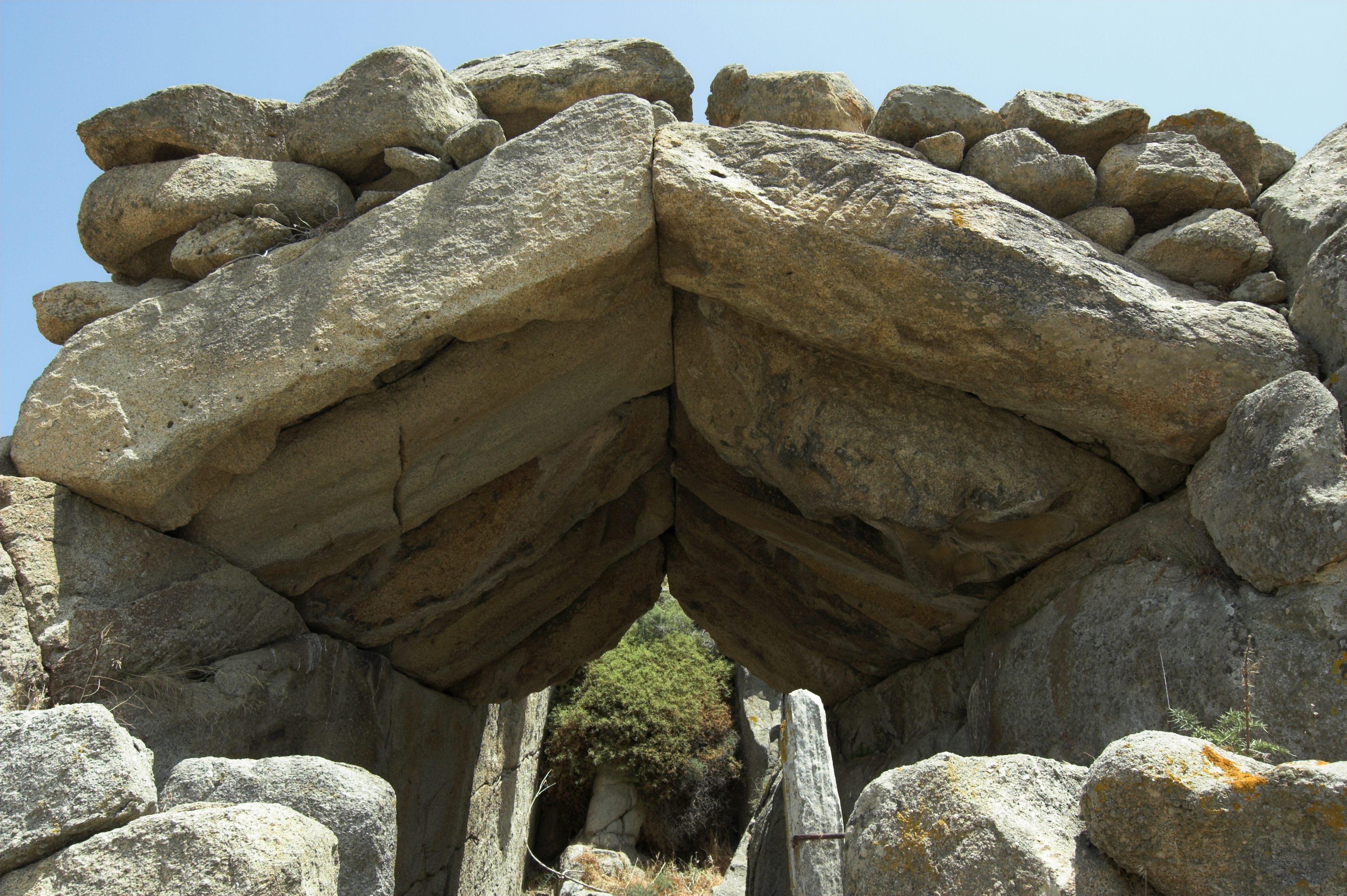 Artificial cave: Cave of Cynthus (Kynthos, Cave of Heracles) on Delos.